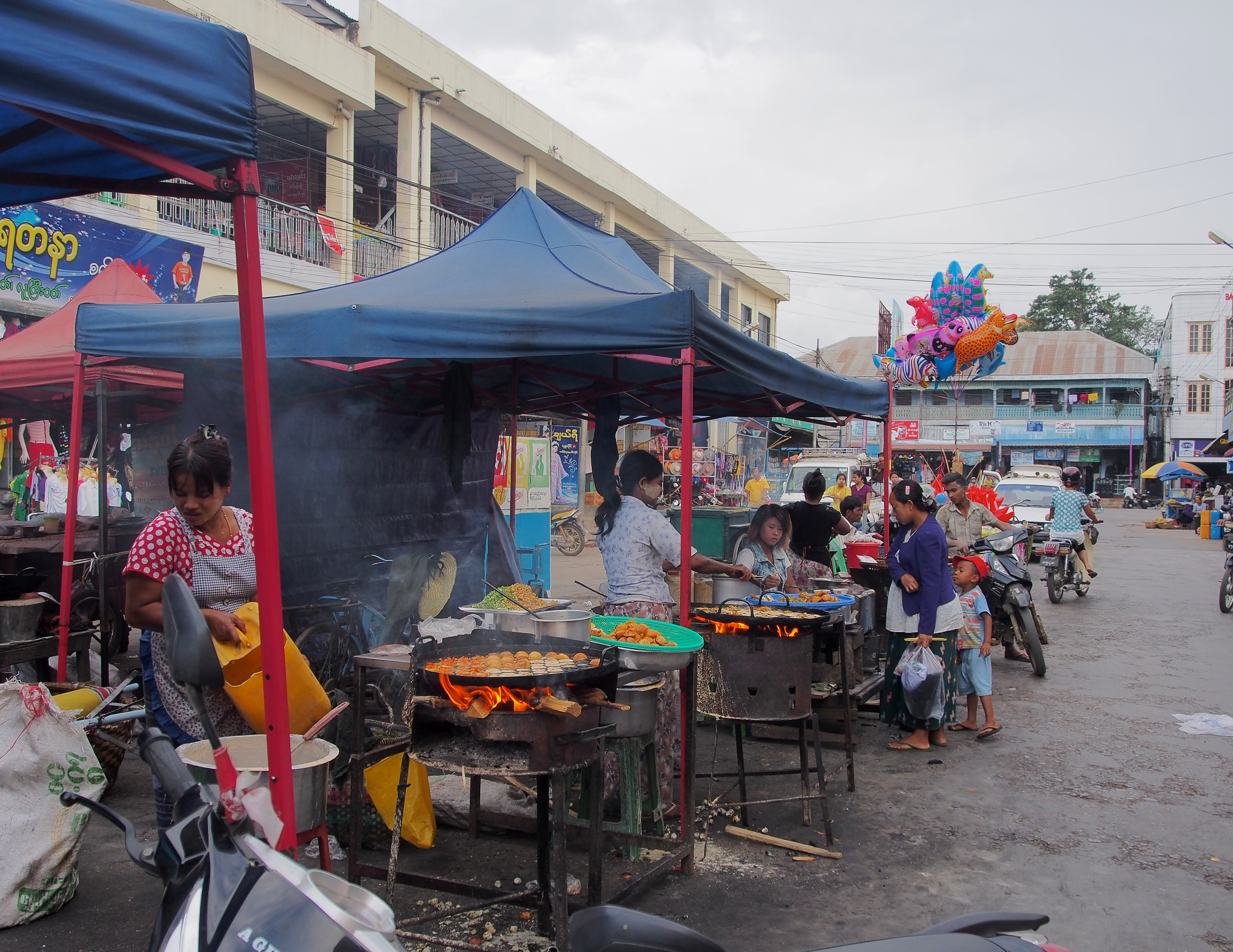 The Night Market : Every day around 5PM there is a night market with a lot of street food, behind the clock tower, which replaces the day market. You can find a lot of fried stuff also suitable for vegetarians, as well as traditional tea, amazing Myanmar salads as well as Indian food.